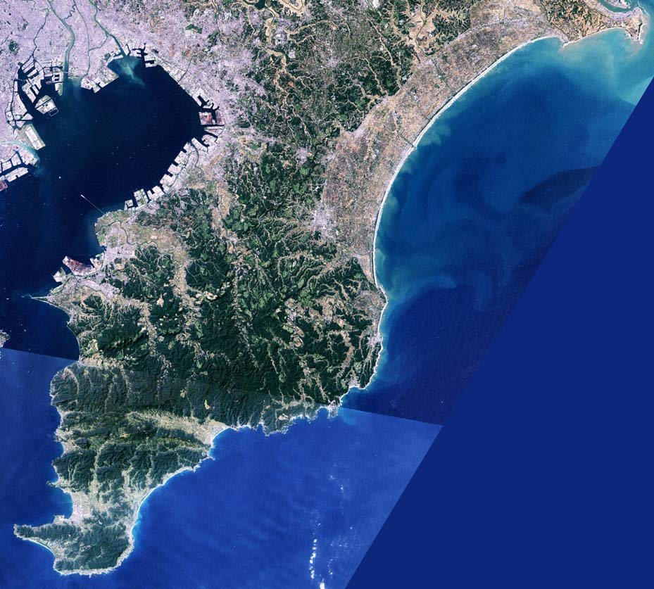 Boso Peninsula in Chiba Prefecture, Japan.